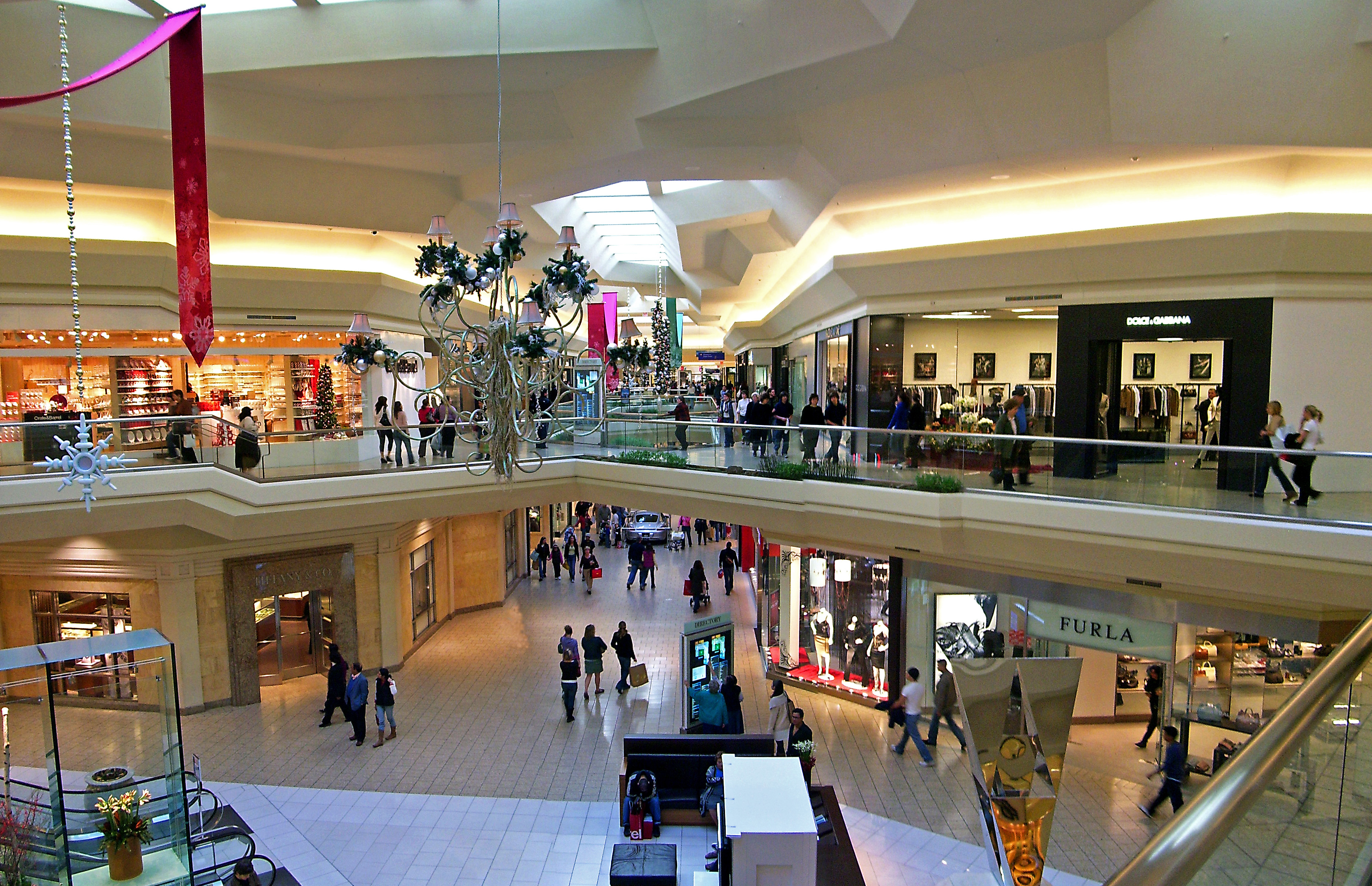 Photographed by Daniel Case 2006-11-25 (Black Friday). Three images combined together using the Photomerge command in Photoshop.